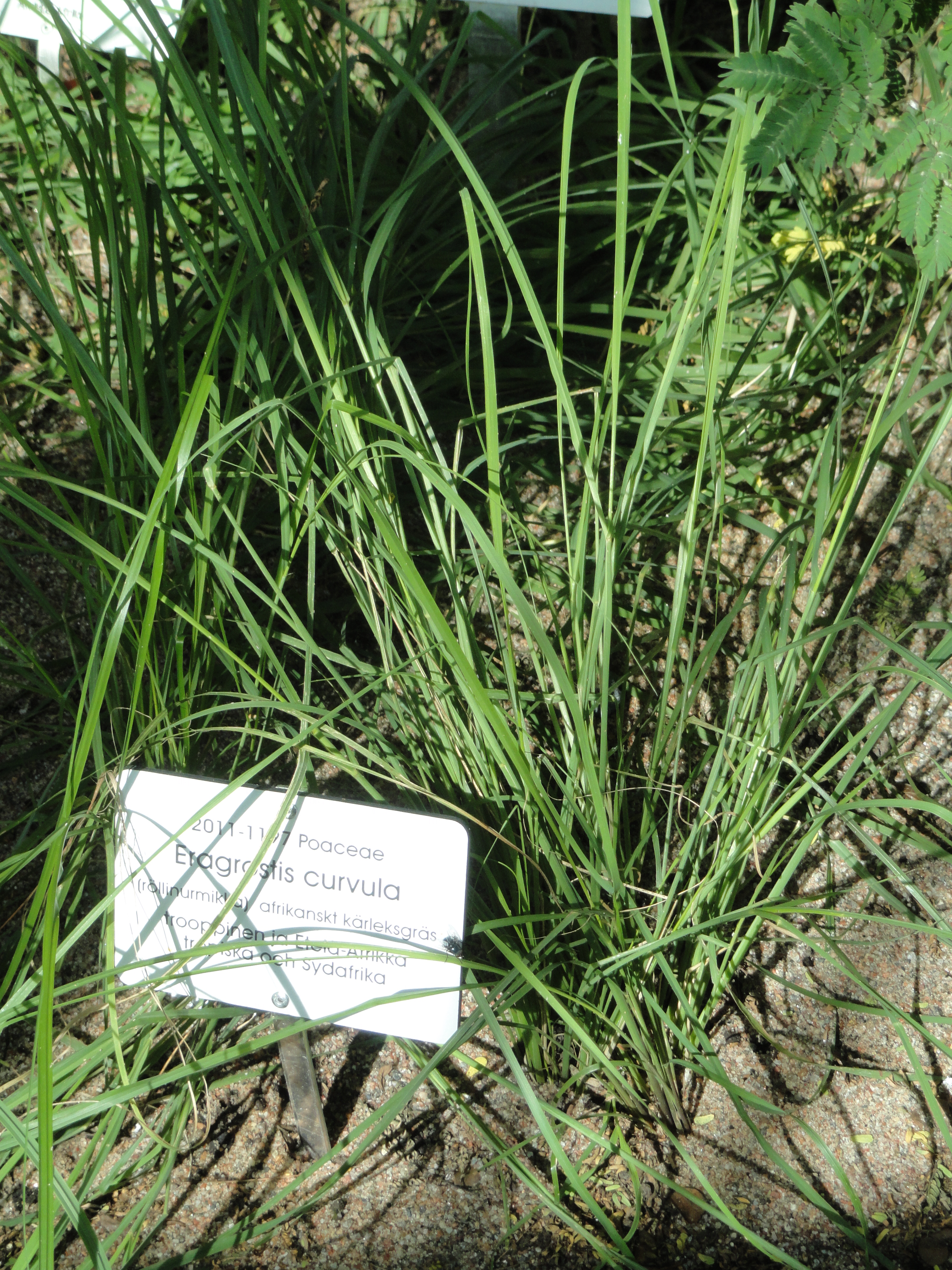 Botanical specimen. The University of Helsinki Botanical Garden at Kaisaniemi